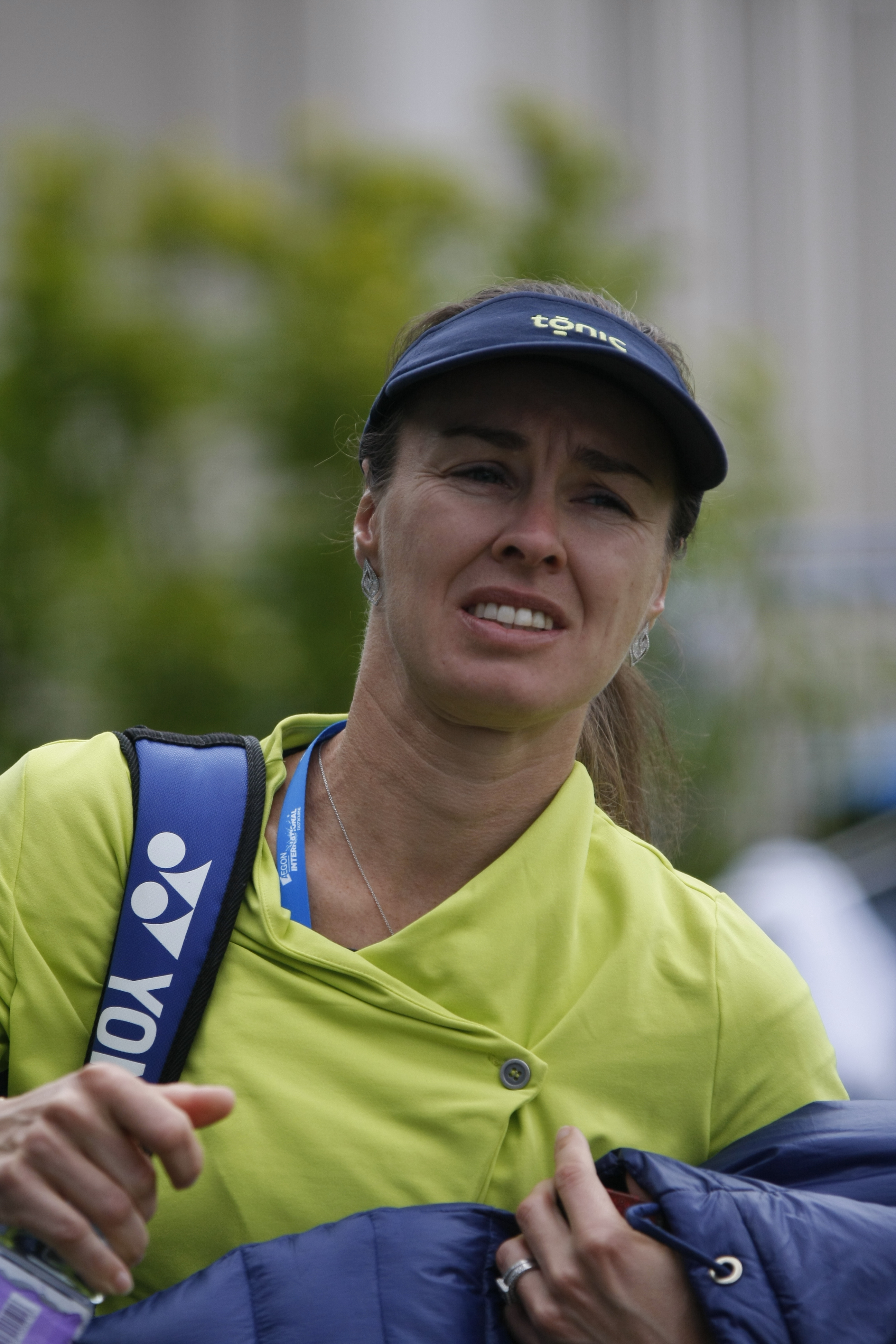 Aegon International Tennis, Devonshire Park, Eastbourne June 2015